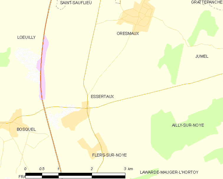 Map of French municipality Essertaux